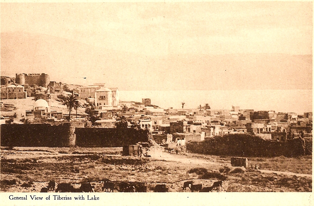 One of 24 postcards of Palestine that published in Cairo, Egypt